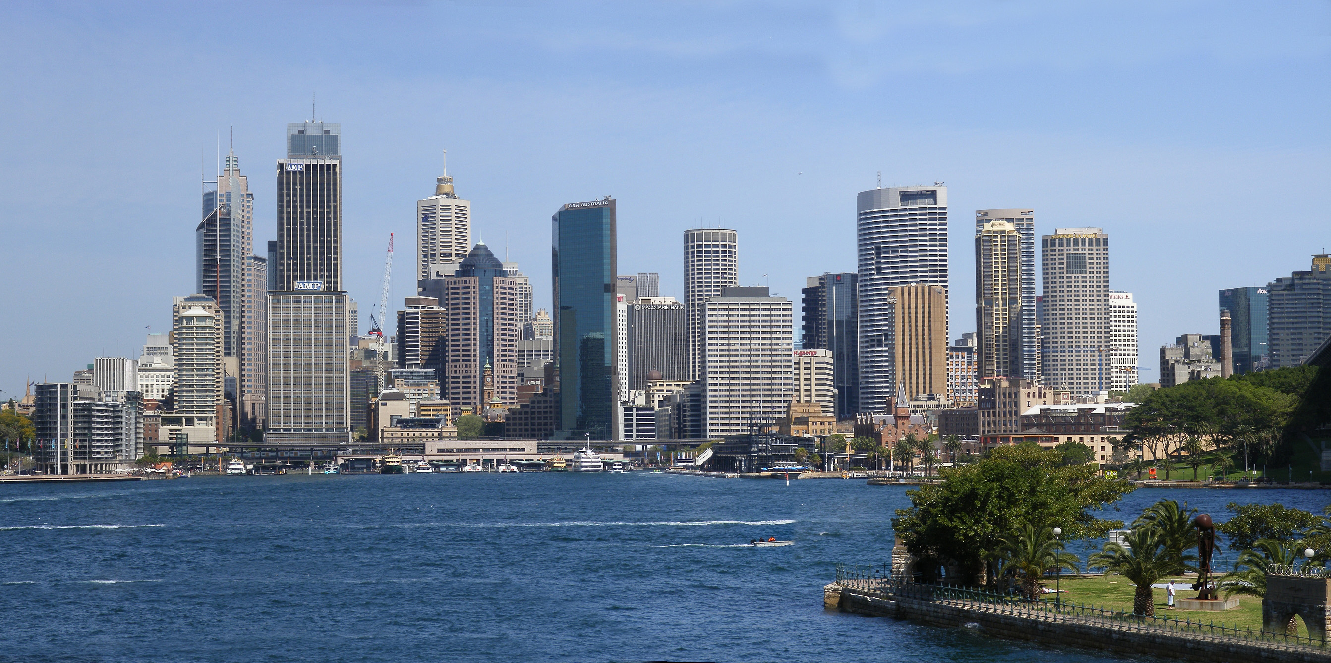 Sydney